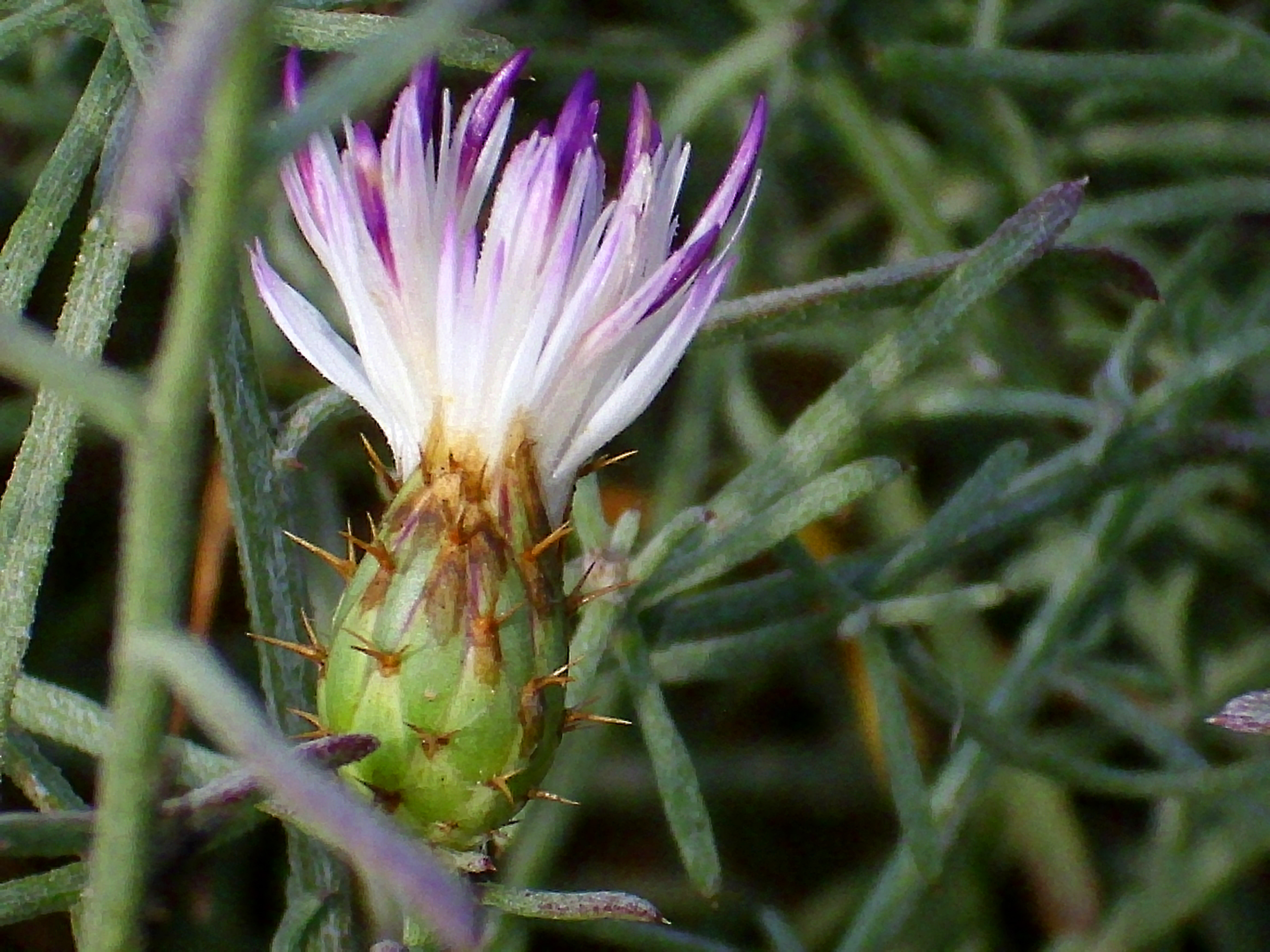 Centaurea aspera inflorescence closeup, La Mata, Torrevieja, Alicante, Spain.